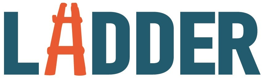 Logo_project